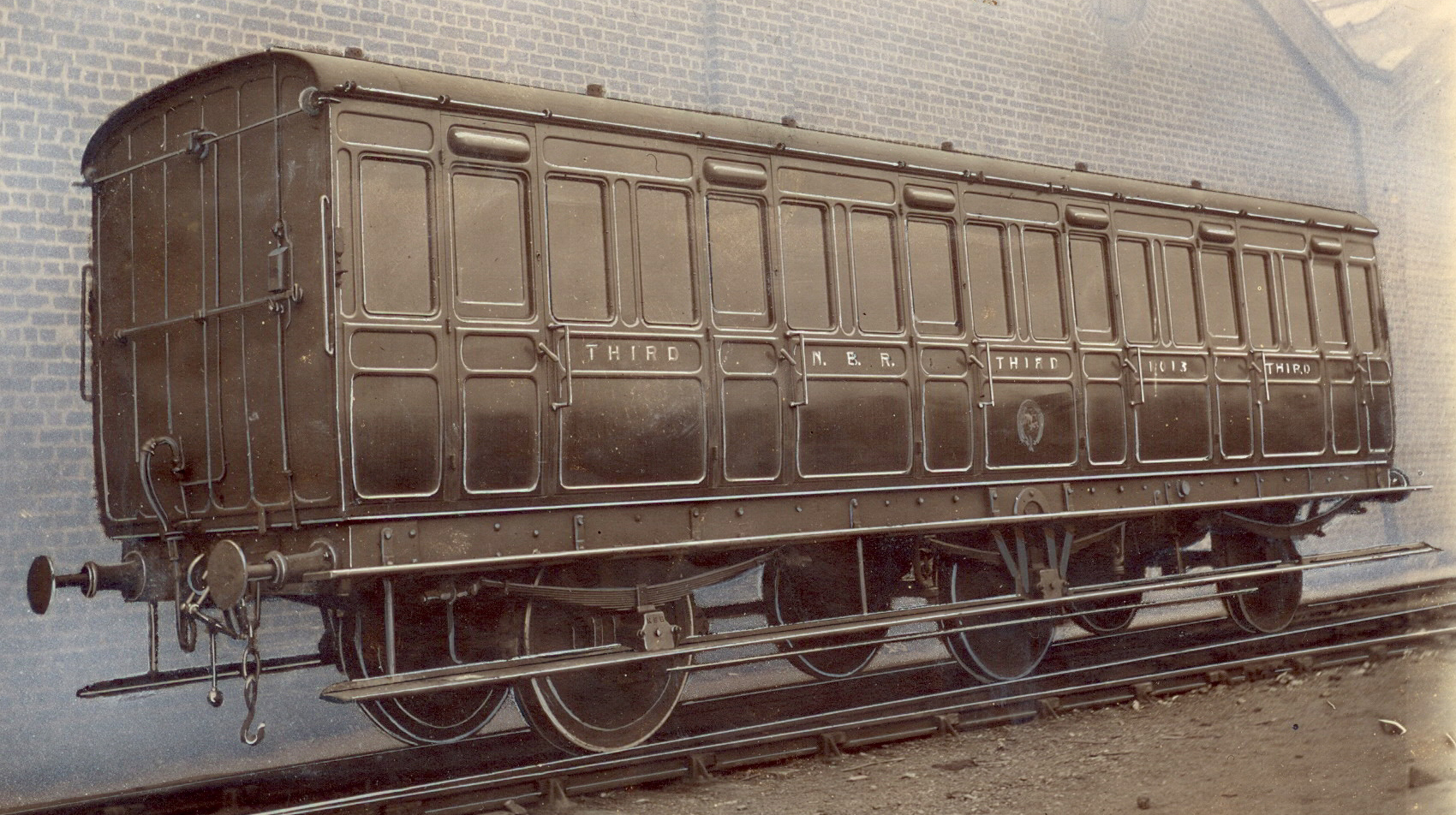 North British Railway 6-wheel Third Class Carriage, circa 1900